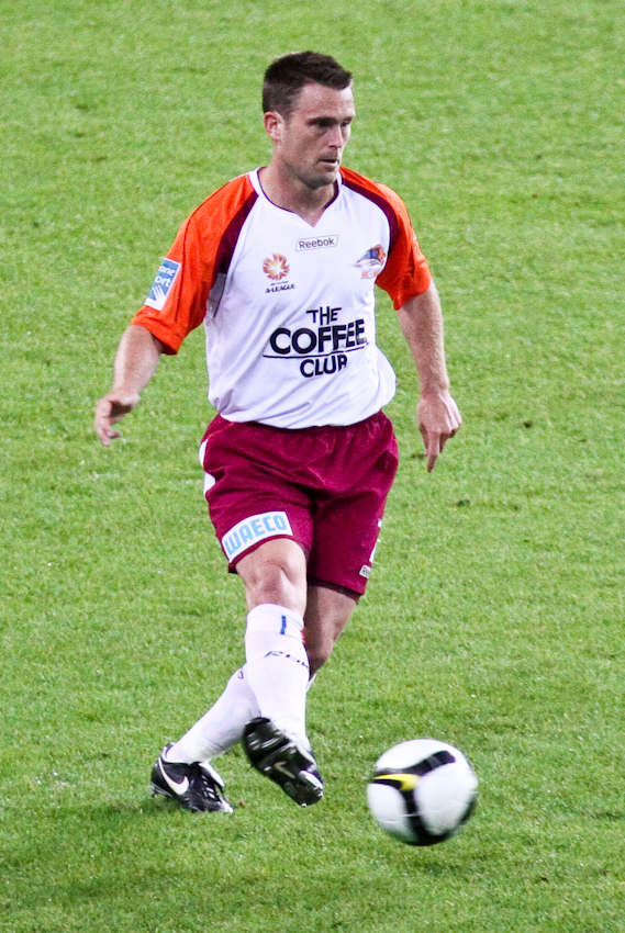 Andrew Packer playing for the Queensland Roar against Sydney FC.